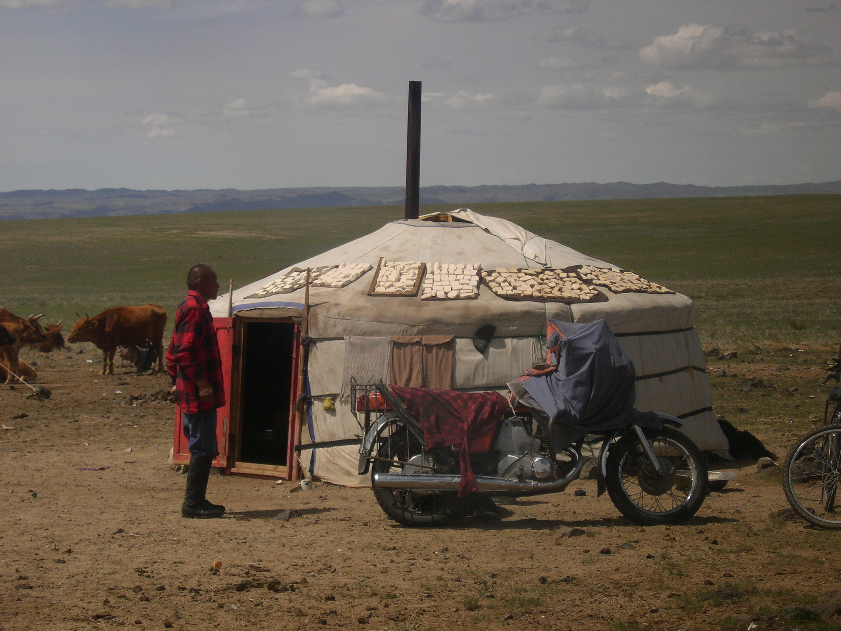 A yurt in south-mongolia, gobi, with aruul (qurut) on the roof.